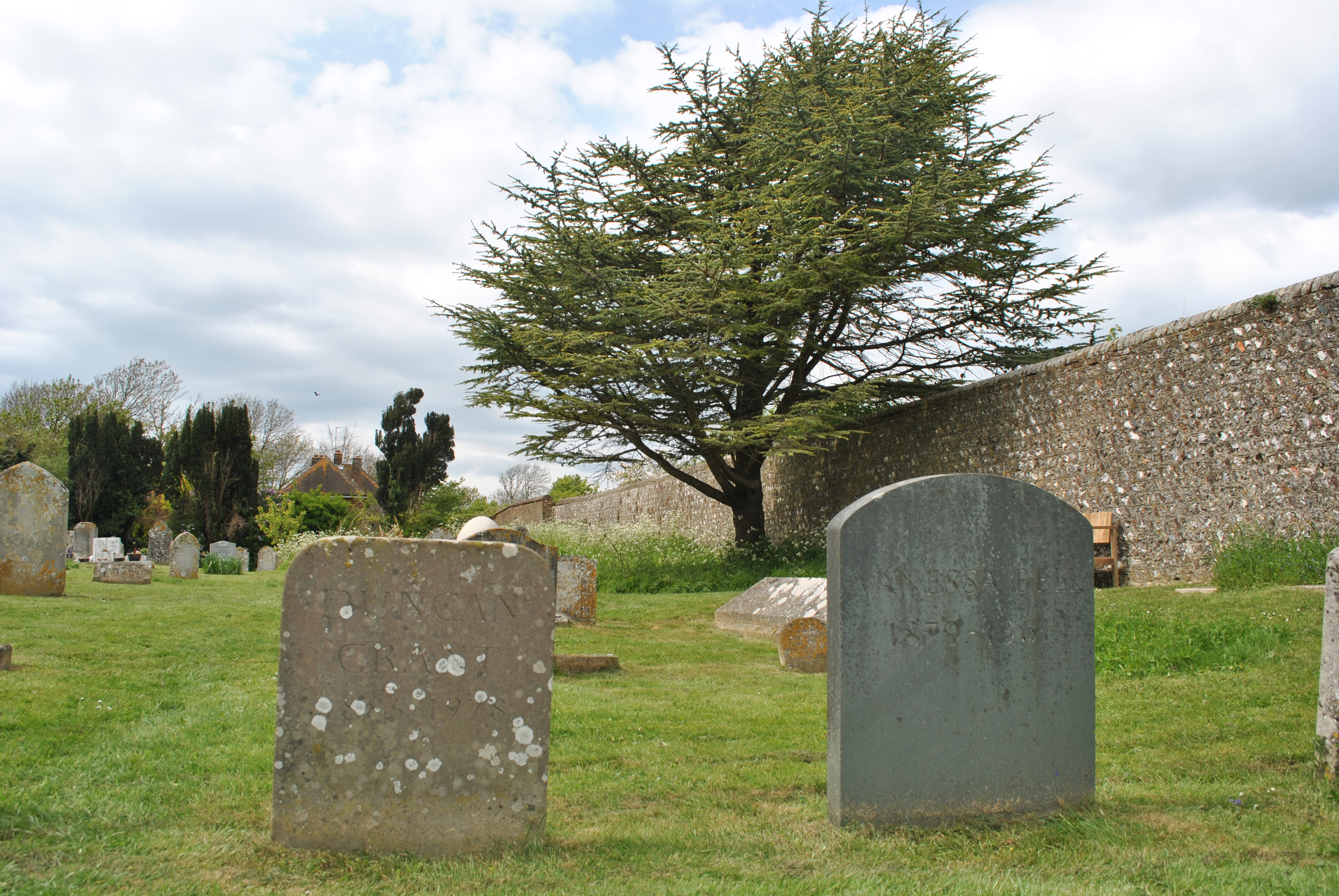 Firle Parish Churchyard, 2017, Originally published in Queer Places, Vol. 2.1: Retracing the Steps of LGBTQ people around the World